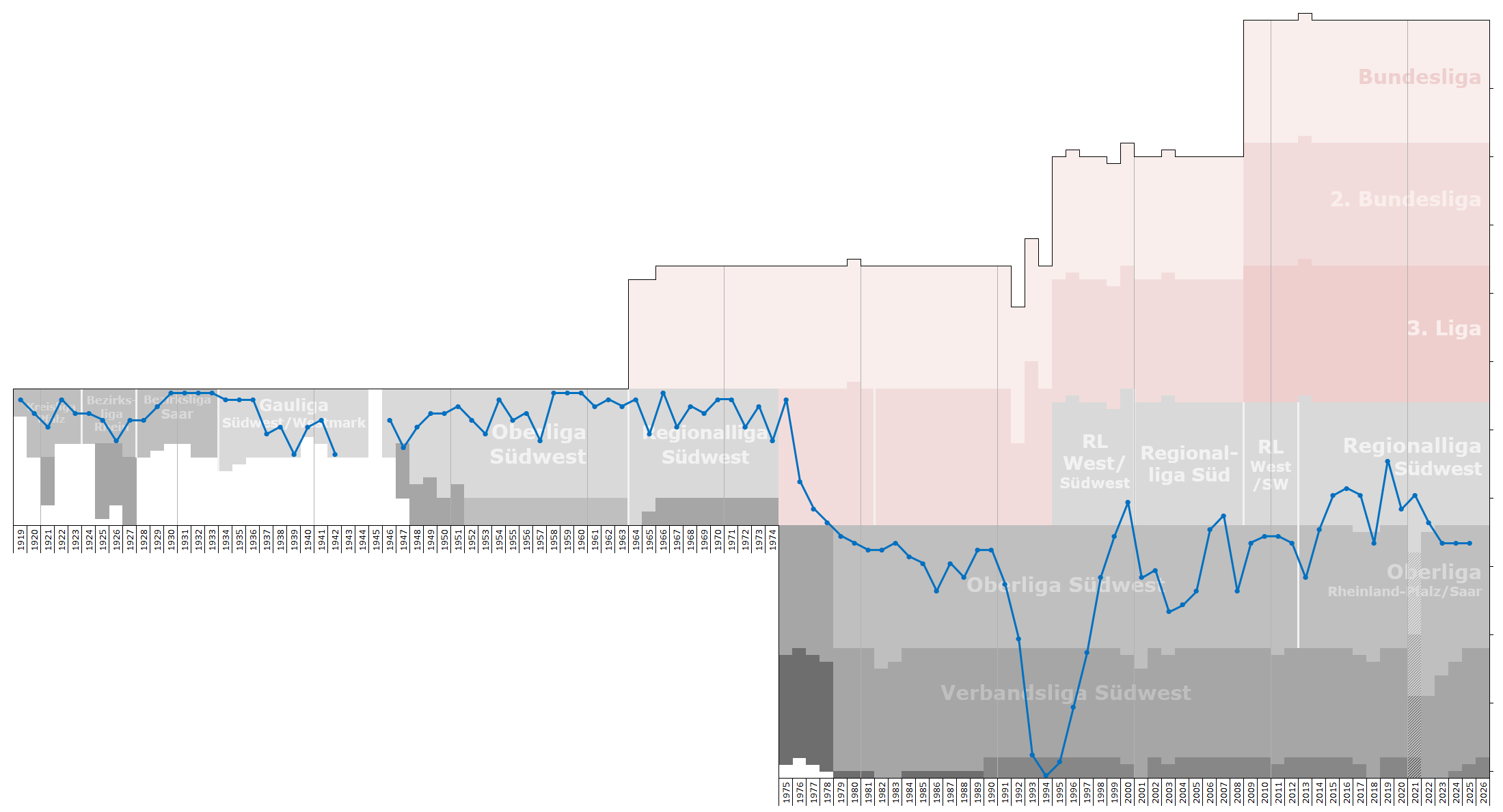 Chart of end-season table positions of FK Pirmasens in the football league system of Germany. Data source: RSSSF, wikipedia, f-archiv.de, fussball.de